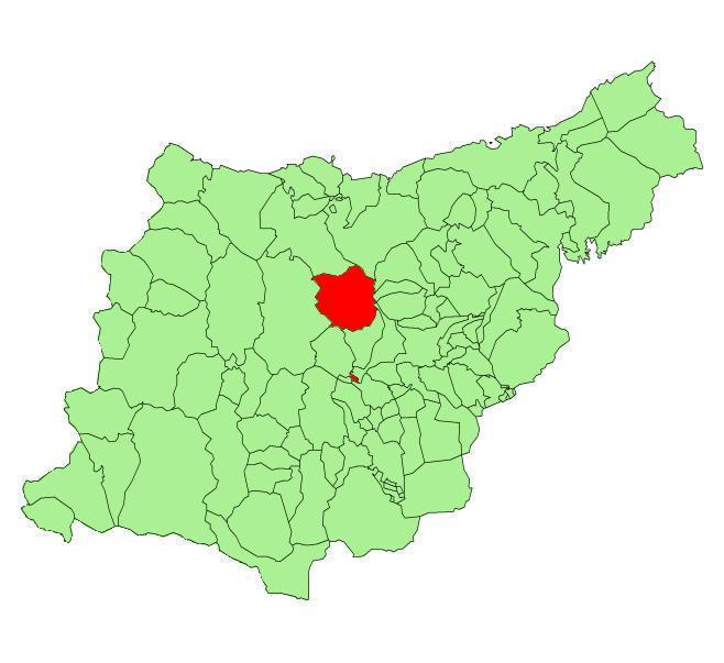 Errezil municipality in the province of Guipuzcoa